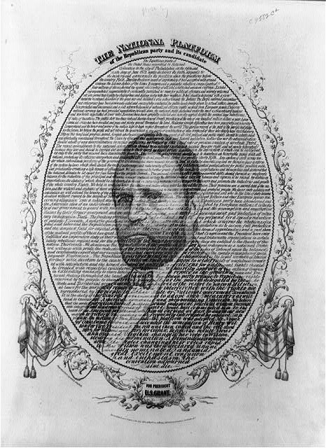 1868 Republican campaign poster, created by superimposing a portrait of U. S. Grant onto the platform of the Republican Party.